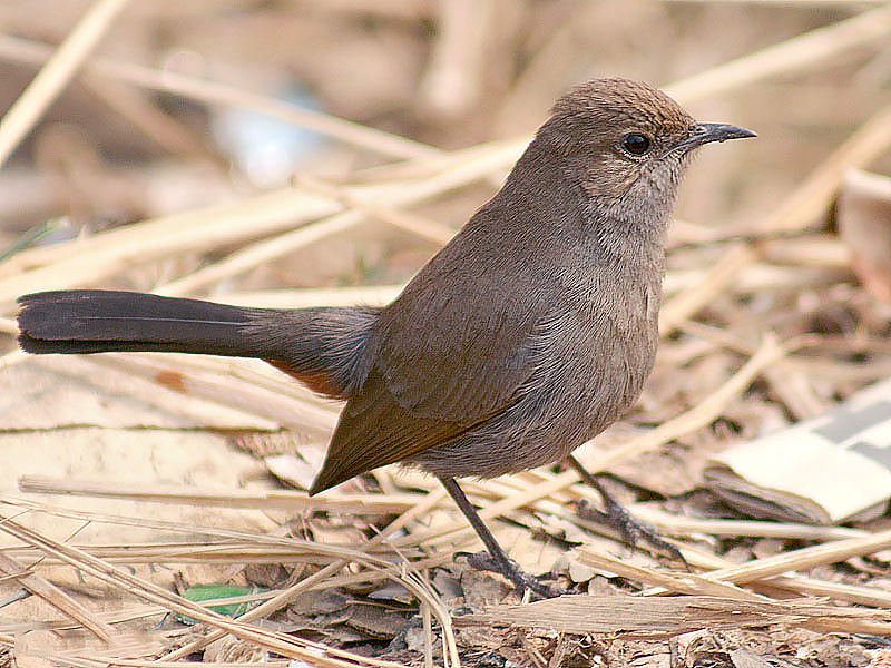 Indian Robin (Saxicoloides fulicata) at/ near Hodal in Faridabad District of Haryana, India.